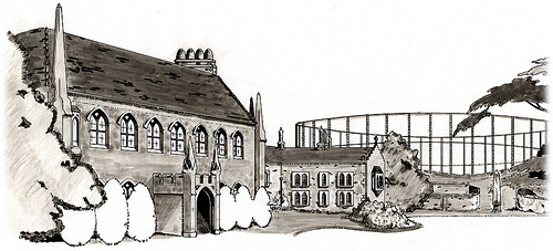 Drawing of Chicksands Priory